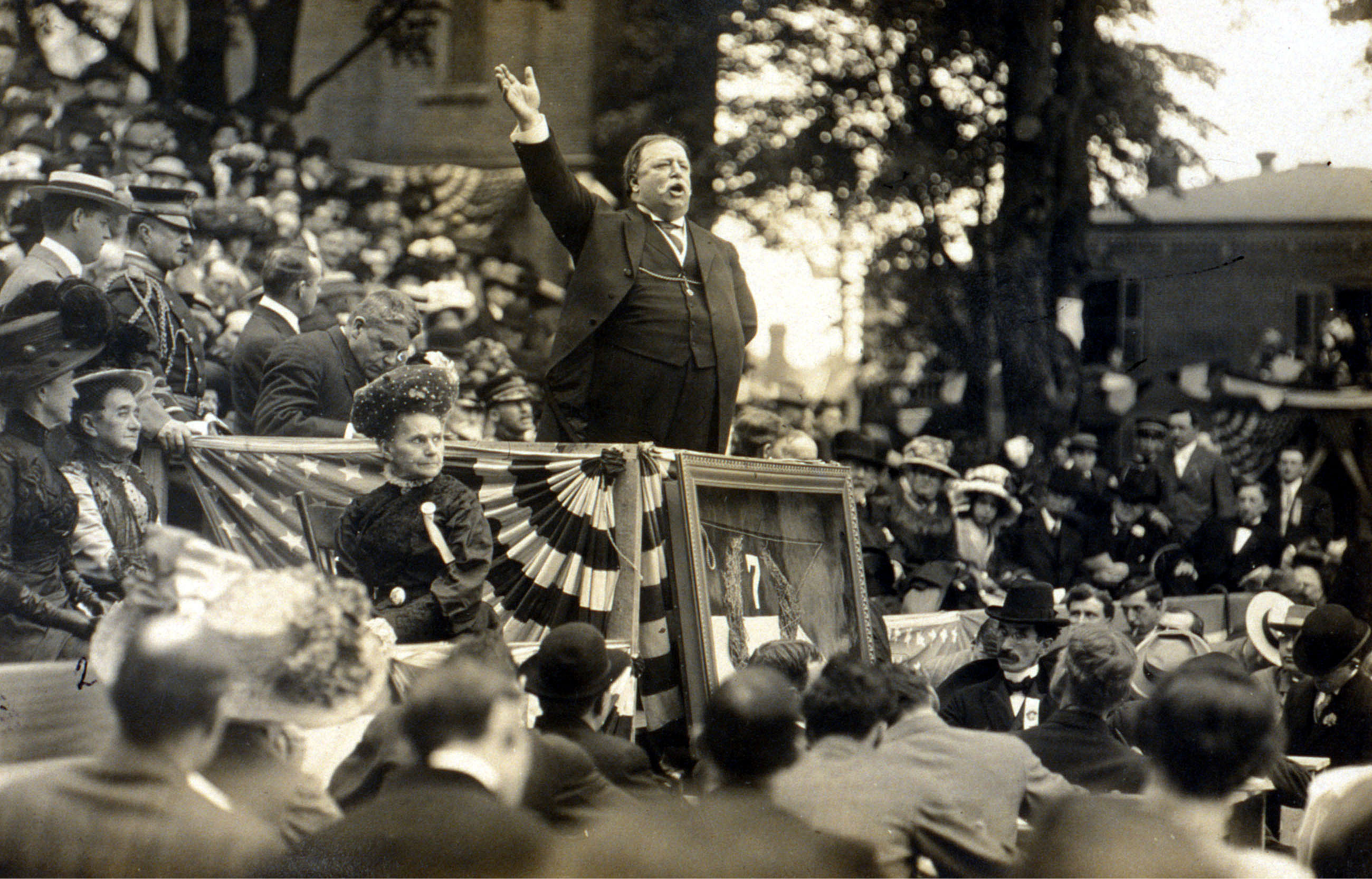 President Taft speaks to the crowd at the unveiling of the George Armstrong Custer Equestrian Monument in Monroe, Michigan, in 1910. Elizabeth Bacon Custer is pictured in a black dress and black hat on the far left of the image.